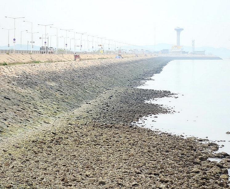 Sihwa Seawall and Sihwa Lake Tidal Power Station